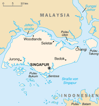 A map of Singapore from the CIA World Factbook with German labels.